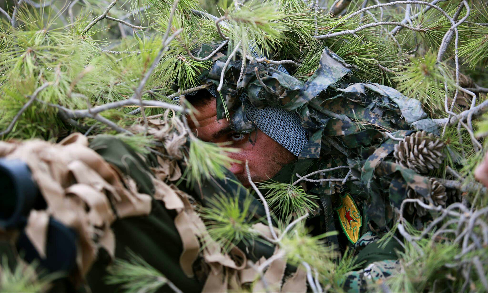 YPG sniper during Operation Olive Branch.